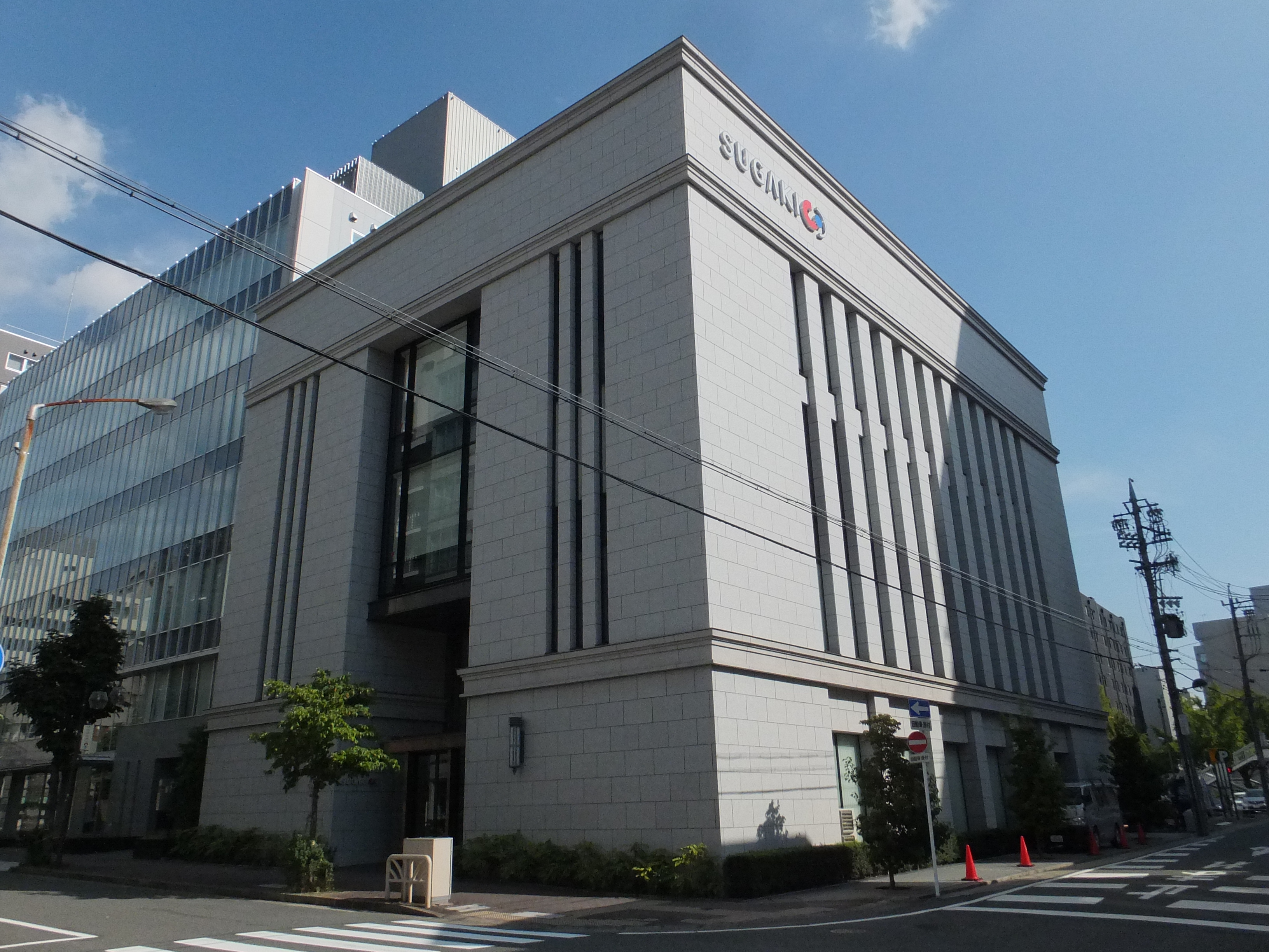 Headquarters of Sugakico Systems Co., Ltd. (スガキコシステムズ株式会社), located at Marunouchi, Nagoya, Aichi, Japan